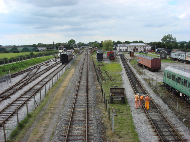 The 2 halves of Buckinghamshire Railway Centre Buckinghamshire Railway Centre is split in two halves by this railway line which is used for freight services. Old railway stock can be seen either side of the railway line which belongs to the railway museum.